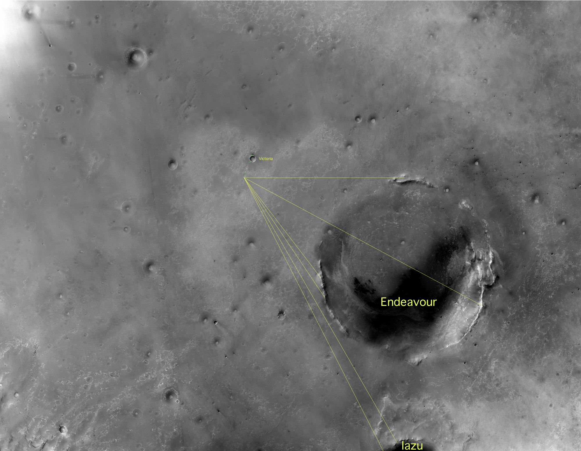 This image of the Endeavour crater was taken from the Mars Reconnaissance Orbiter on March 7, 2009. Endeavour is an impact crater located in the Meridiani Planum which is near the equator of Mars. Endeavour Crater is 22 kilometers (14 miles) in diameter and starting in August of 2008 was the destination for the Mars Exploration Rover Opportunity. This image includes annotations showing the position of Opportunity and names for the craters Iazu, Endeavour, and Victoria.